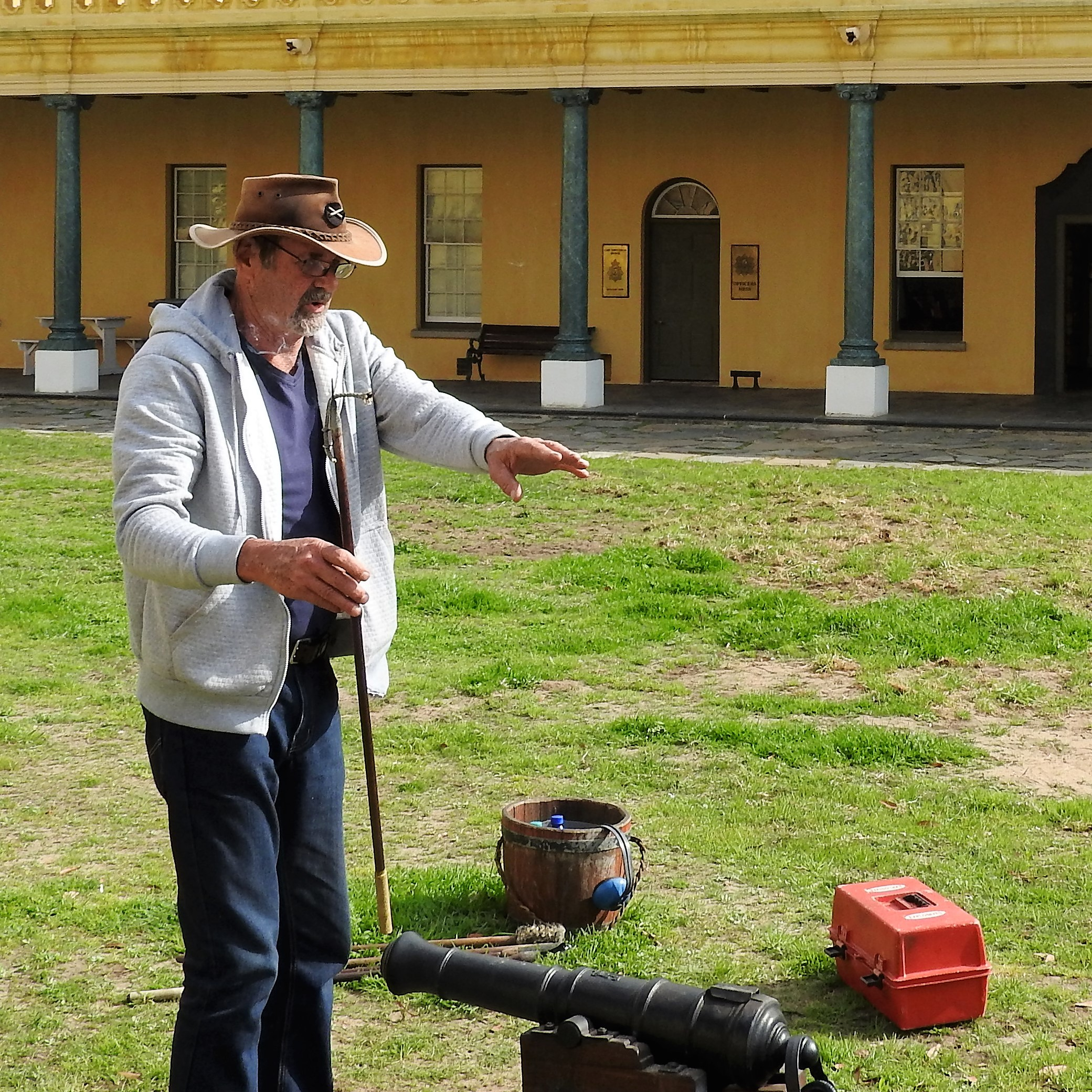 Slow match is burning. A moment later, your photographer had the honour of touching it to the touch-hole. Bang!